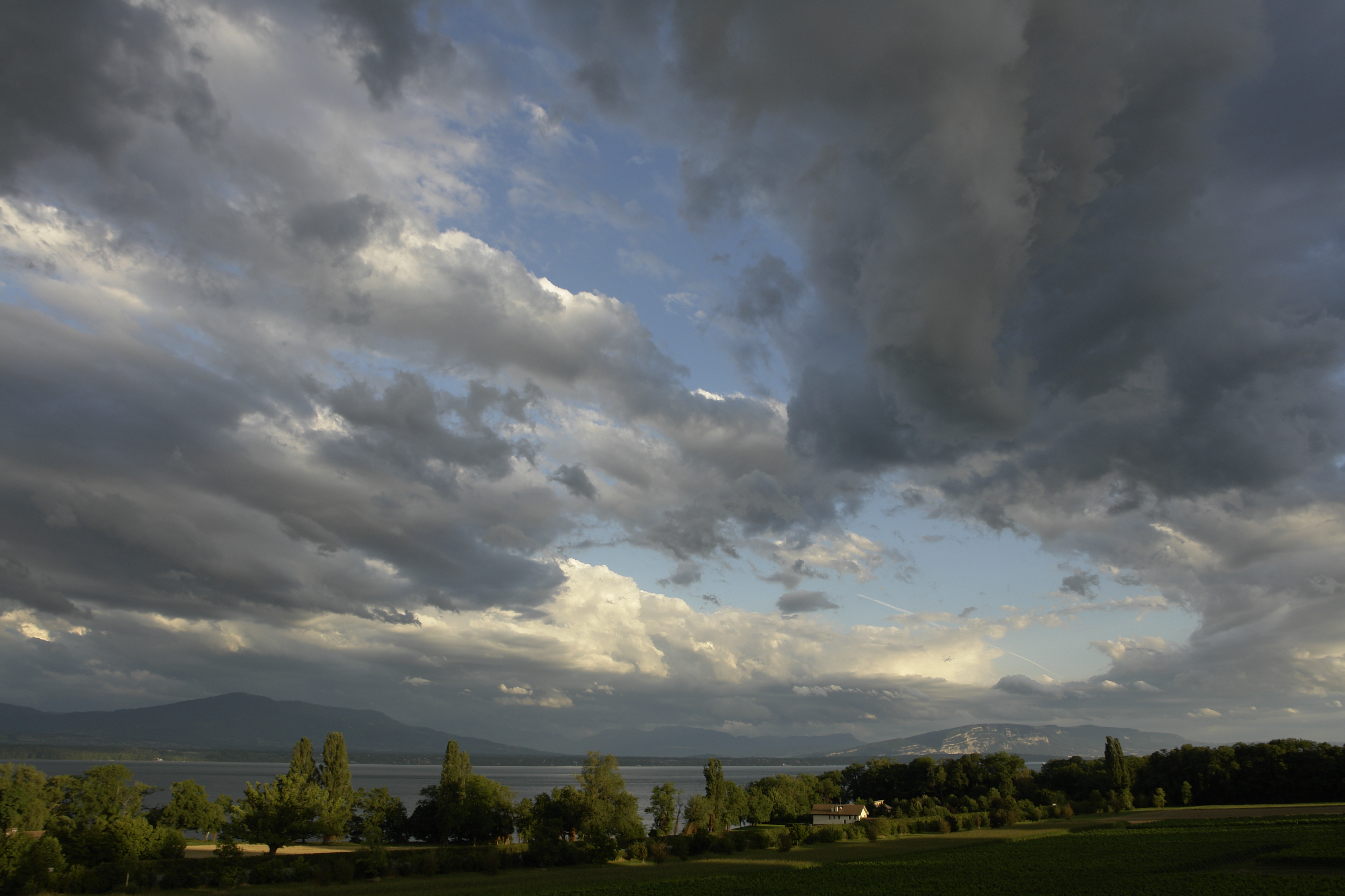 Lake Geneva with Voirons and Salève in the background.